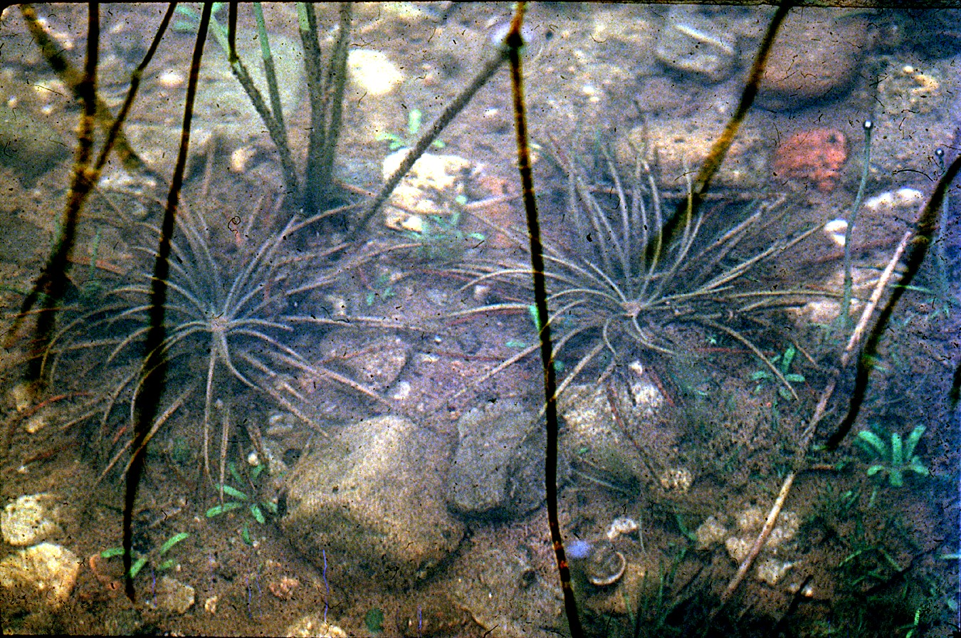 Isoetes lacustris